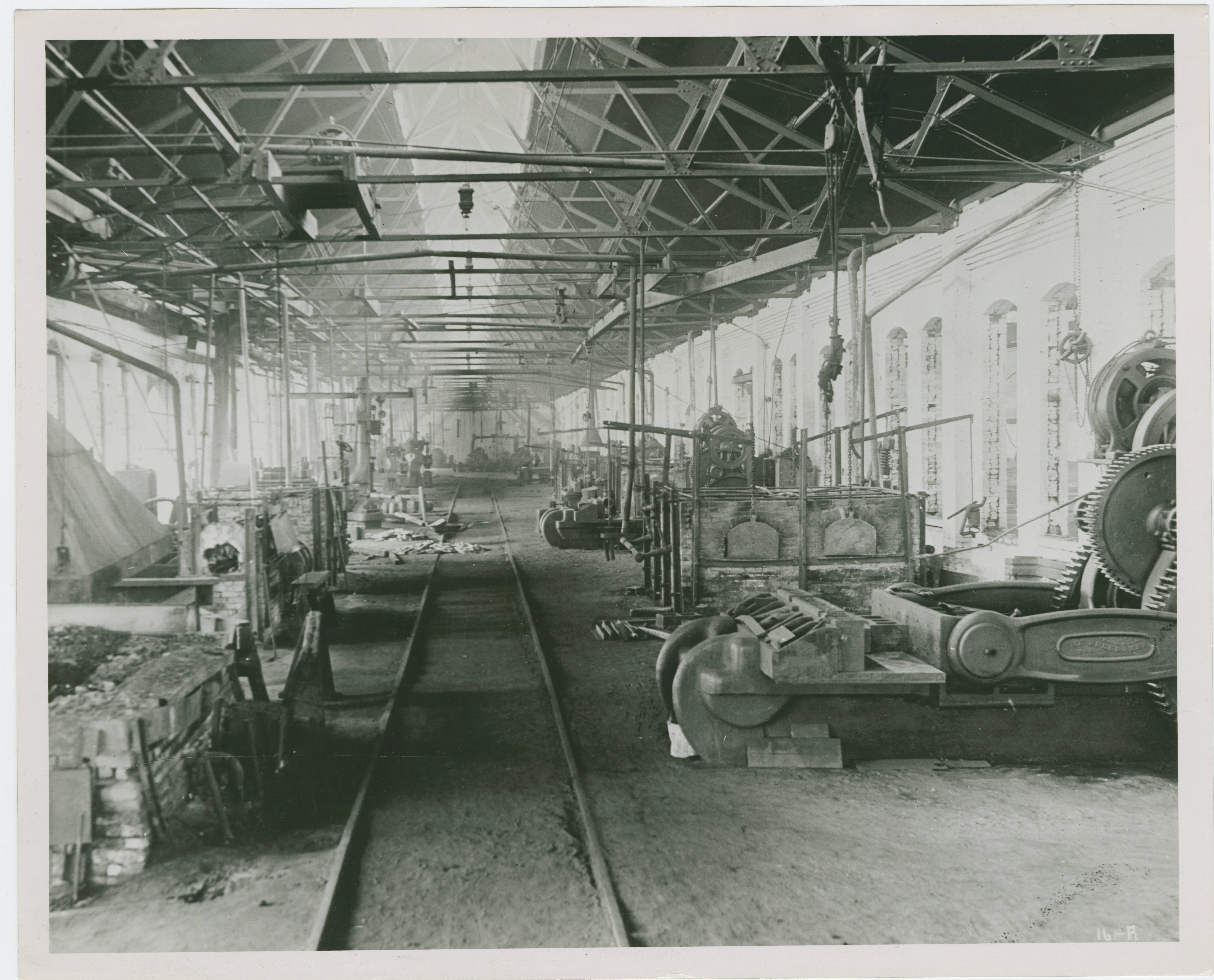 "The photograph shows the interior of the Ralston Steel Car Company forge shop in Columbus, Ohio. Railroad tracks run down the center of the building with large machines and forges on either side. The Ralston Steel Company was founded by Joseph S. Ralston and Anton Becker in 1905, when the men bought the former plant of the Rarig Engineering Company on the east side of Columbus. The increasing power of steam locomotives drove demand for the all-steel cars they manufactured, and the company was extremely successful with their drop-bottom general purpose gondola car. These cars had bottom pans that would drop down, allowing coal to pour out instead of the traditional method using shovels and wheelbarrows. This allowed for automatic unloading of coal and hopper cars which led to more efficient production. With the exception of the Great Depression, Ralston experienced a successful run until the 1950s, when demand for freight trains dropped after World War II. The company shut its doors in 1953."